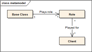 Role Class Meta-model according to Francis G. Mossé.